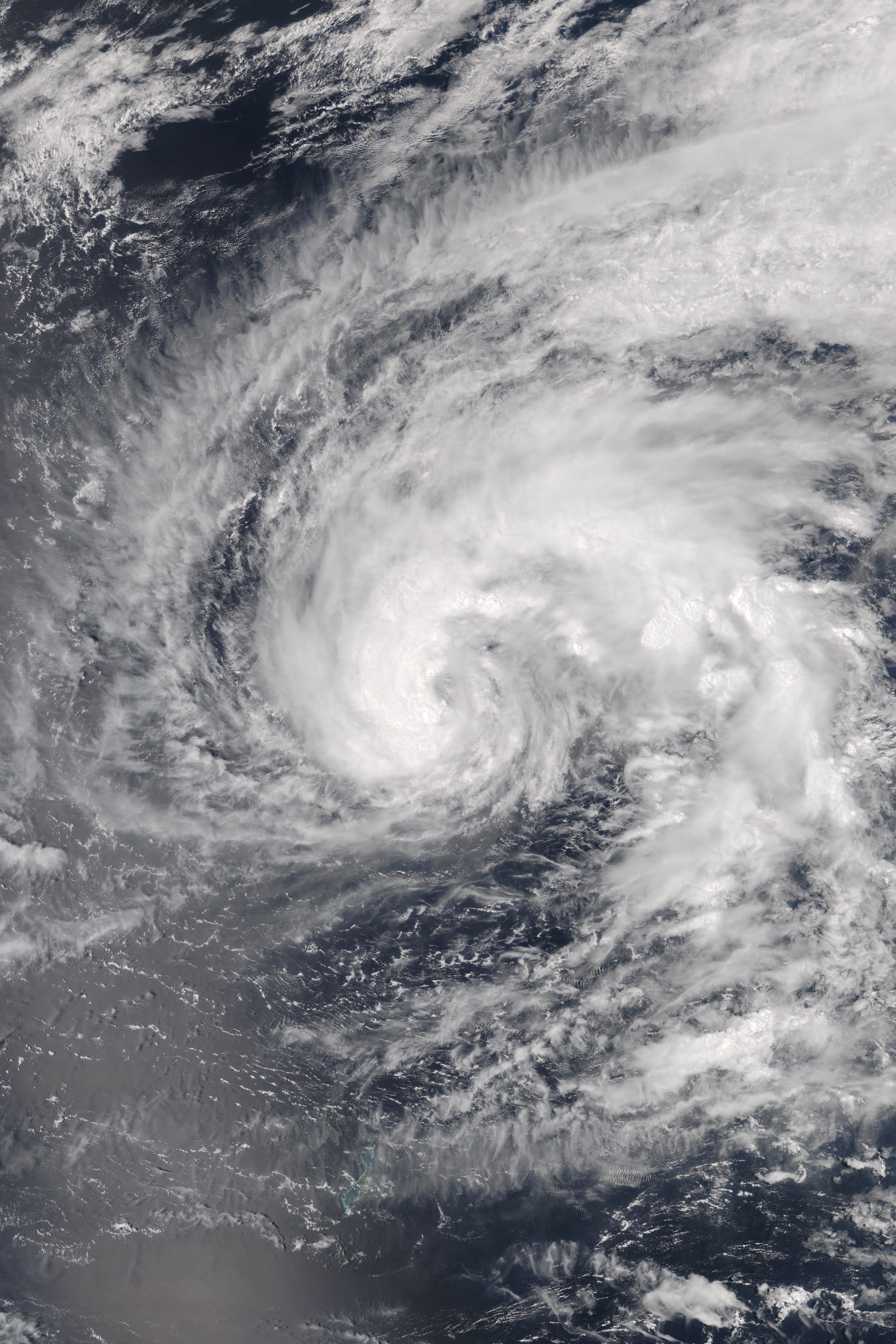 Severe Tropical Storm Jelawat on March 29, 2018